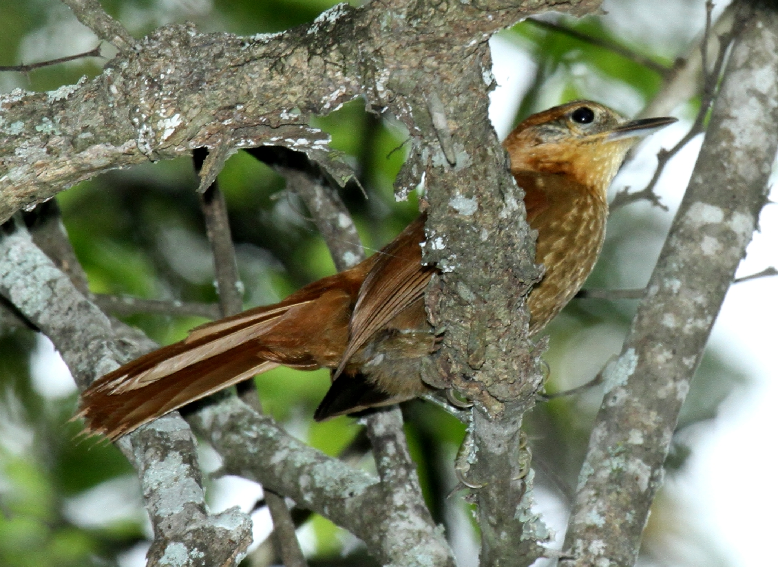 Jorupe Preserve - Ecuador